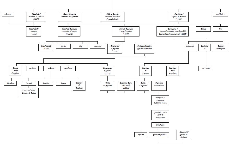 Main family branches of the aleramics Marquis del Vasto. Produced with Microsoft Word 2000. Historical sources: A. Manno The subalpine aristocracy. Florence, 1906.